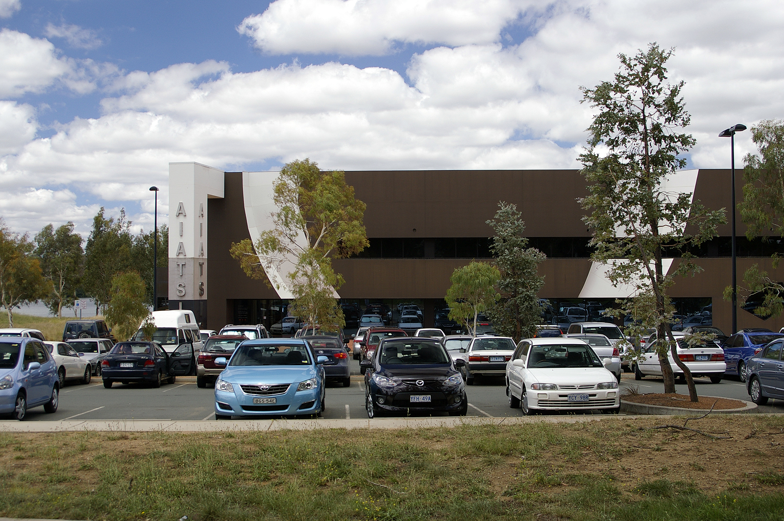 Australian Institute of Aboriginal and Torres Strait Islander Studies (AIATSIS) located on Acton Peninsula in Canberra, Australian Capital Territory.